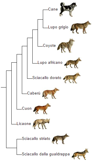 Phylogeny of wolf-like canids